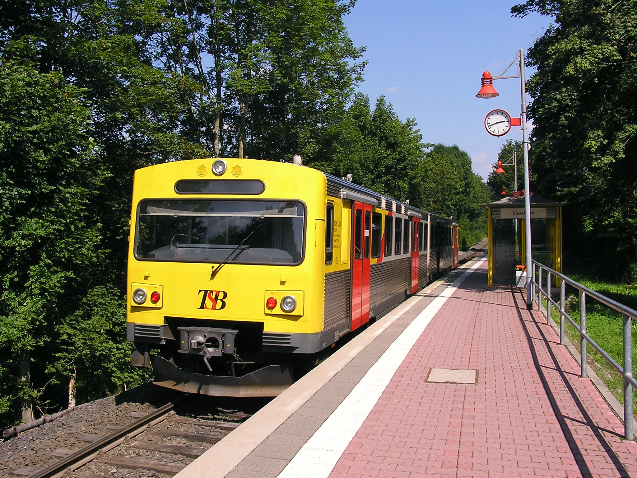 A VT 2E in the stop Hasselborn at the former Solmsbachtalbahn, today served by the Taunusbahn